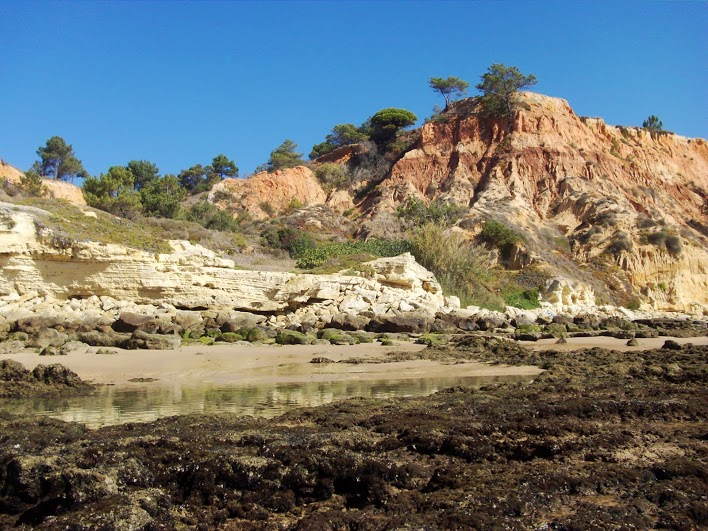 Natural pol